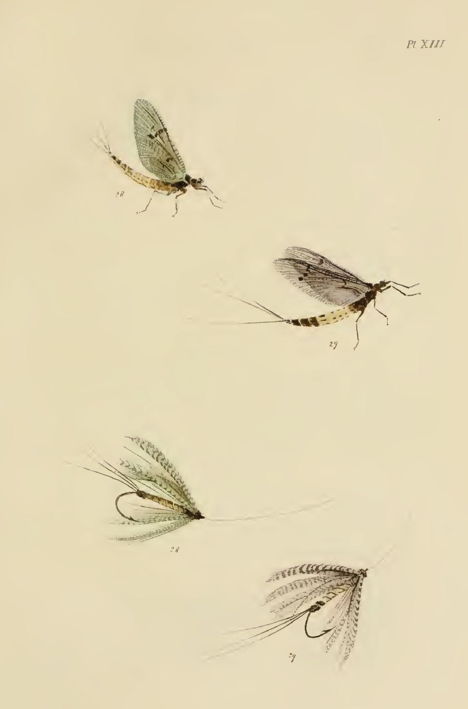 Plate XIII-Green Drake and Grey Drake from The Fly-fisher's Entomology, 1849 by Alfred Ronalds.